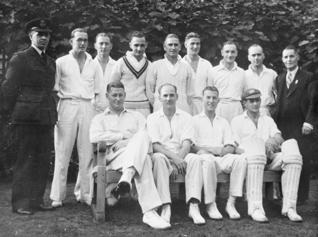 London, England. 1943-09-11. The first official cricket match between the RAAF and the Royal Air Force (RAF) was played at Lords cricket ground on 11 September 1943.[1] The game was won by the RAAF who scored 164 runs for eight wickets after the RAF had closed their innings at nine wickets for 105 runs. Group portrait of the RAAF team shows the team as follows (from left to right): Back Row: Squadron Leader Wilfred B. Tart (253218) (in uniform); Pilot Officer A. McDonald (?), (Victoria); Sergeant Ross M. Stanford (416624), (South Australia);[2] Sergeant James A. Workman (28478), (South Australia);[3] Flight Lieutenant C. Bruce Andrew (251991), (Victoria);[4] Sergeant Keith R. Miller (410608), (Victoria);[5] Flight Lieutenant Keith S. Campbell D.F.C. (4043710), (Queensland); Flying Officer Donald Ross (205879), (Victoria); Mr. S.A. Hipple (in suit, the umpire); Flight Officer Arthur W. Roper (411527), (New South Wales); Sergeant E.A. Williams (or W. Williams) (?), (South Australia); Corporal W. Yates (?), (New South Wales); Flight Officer Stanley G. Sismey (403605), (New South Wales);[6] and the captain of the team, Flight Officer D. Keith Carmody (420138 ), New South Wales.[7].